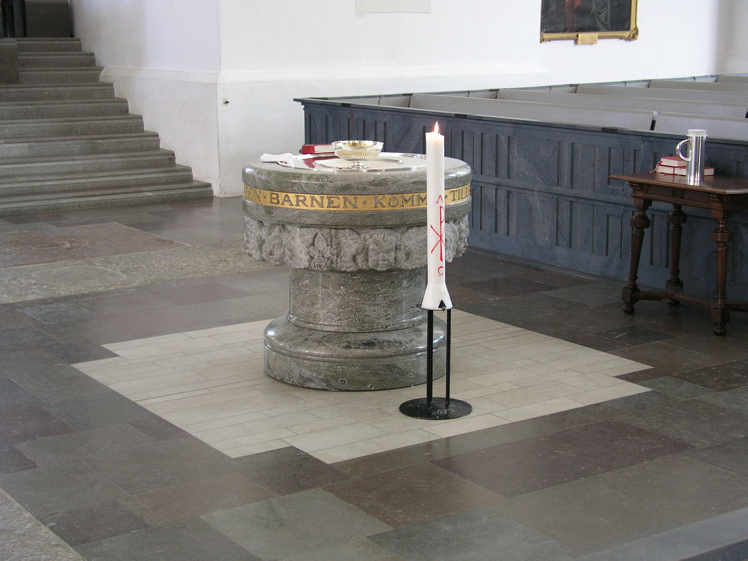 Katarinakyrkan Baptismal font.